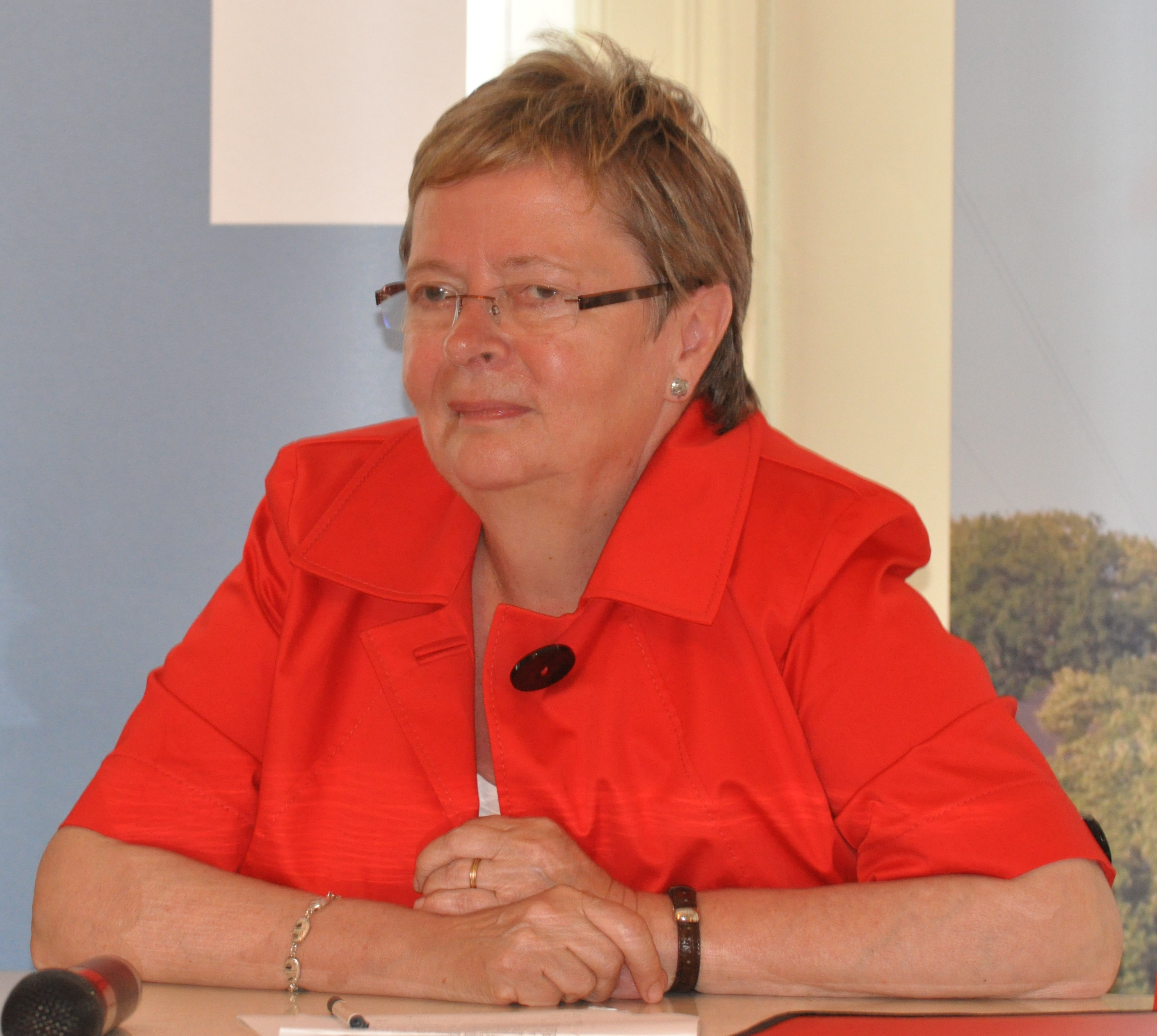 Finnish MEP Liisa Jaakonsaari at the SuomiAreena 2010 in Pori.